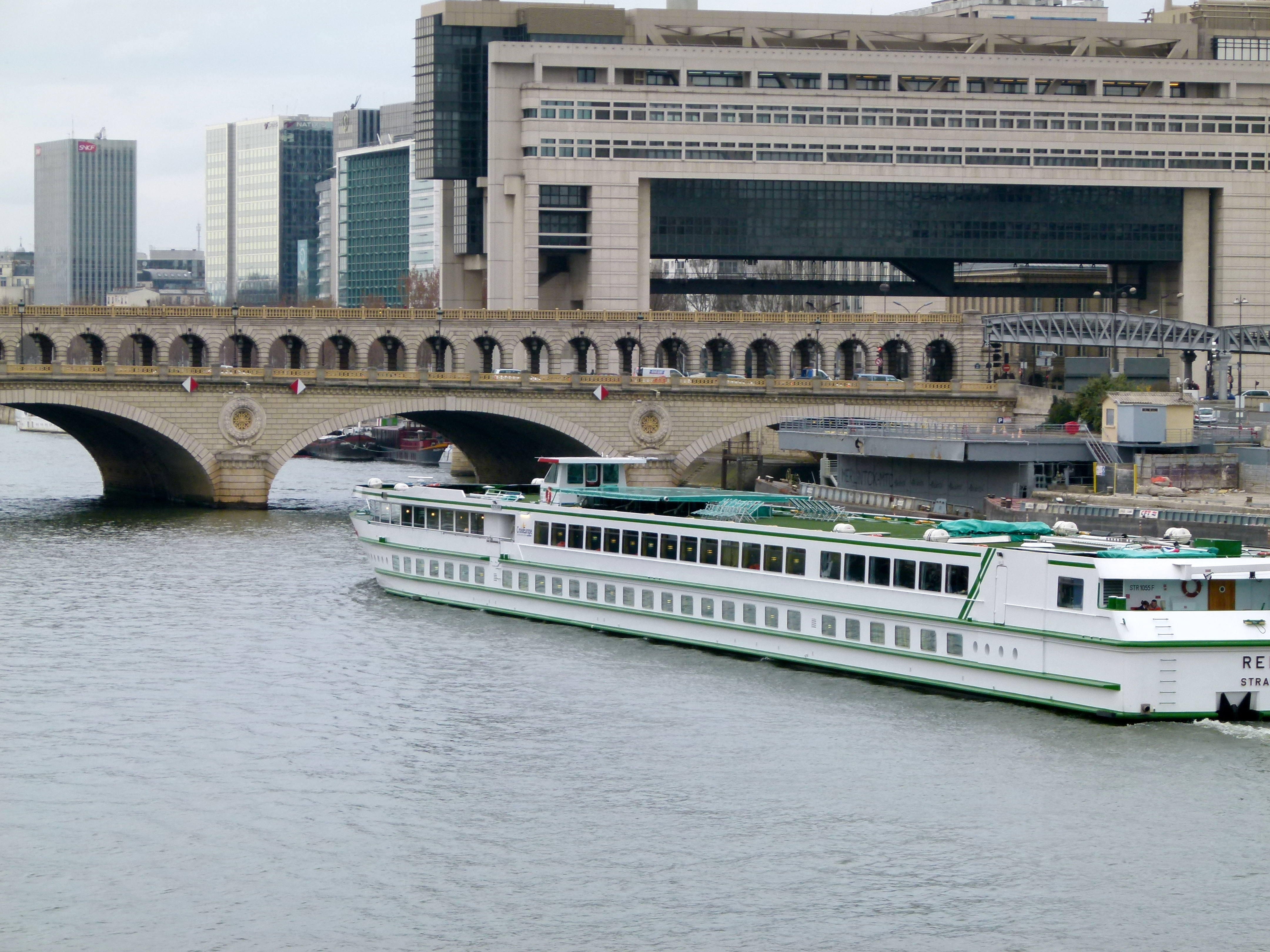 Bercy Ministery of finance building on the Seine